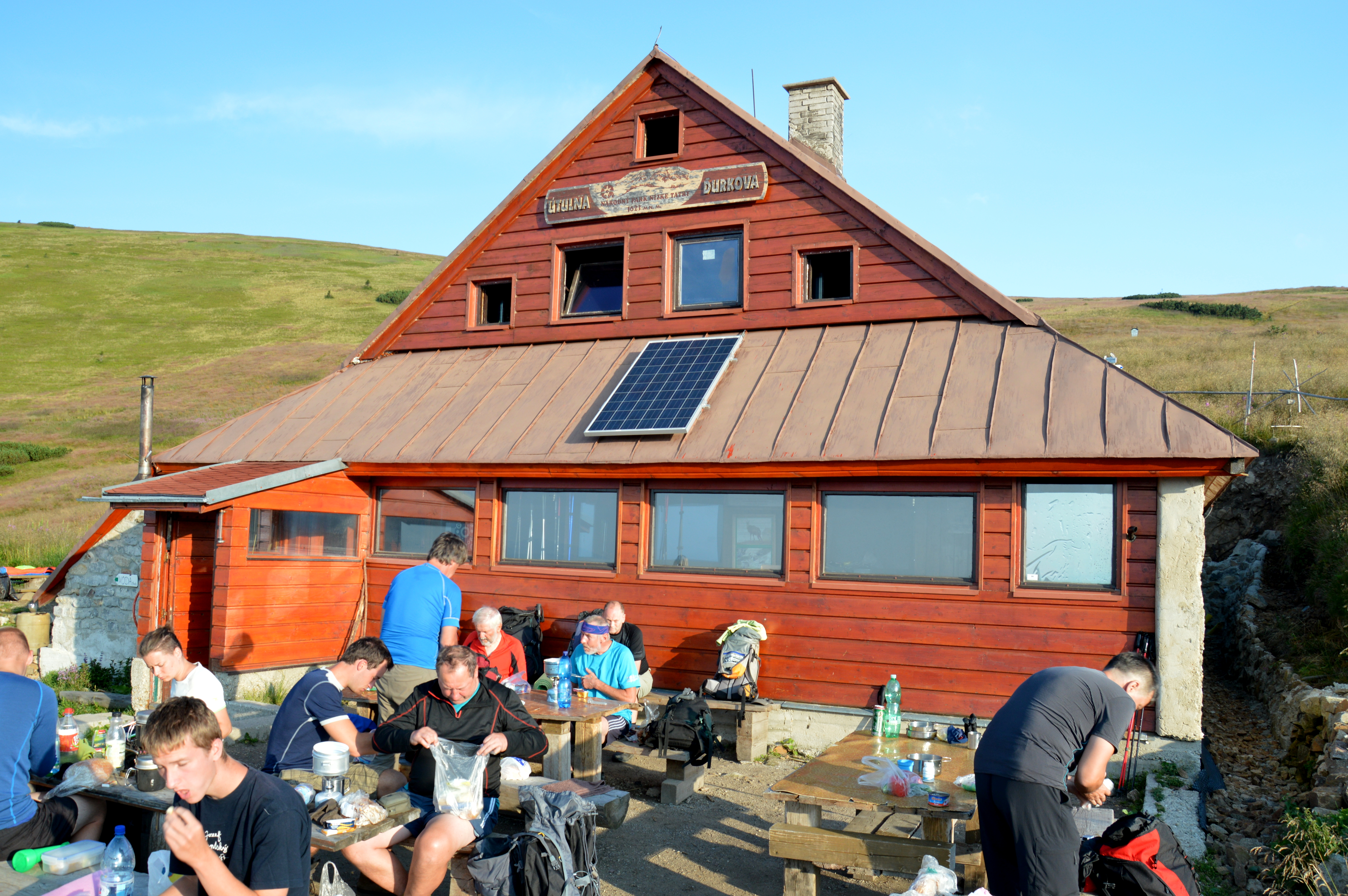 Cabin Ďurková. Low Tatras, Slovakia, in summer 2015